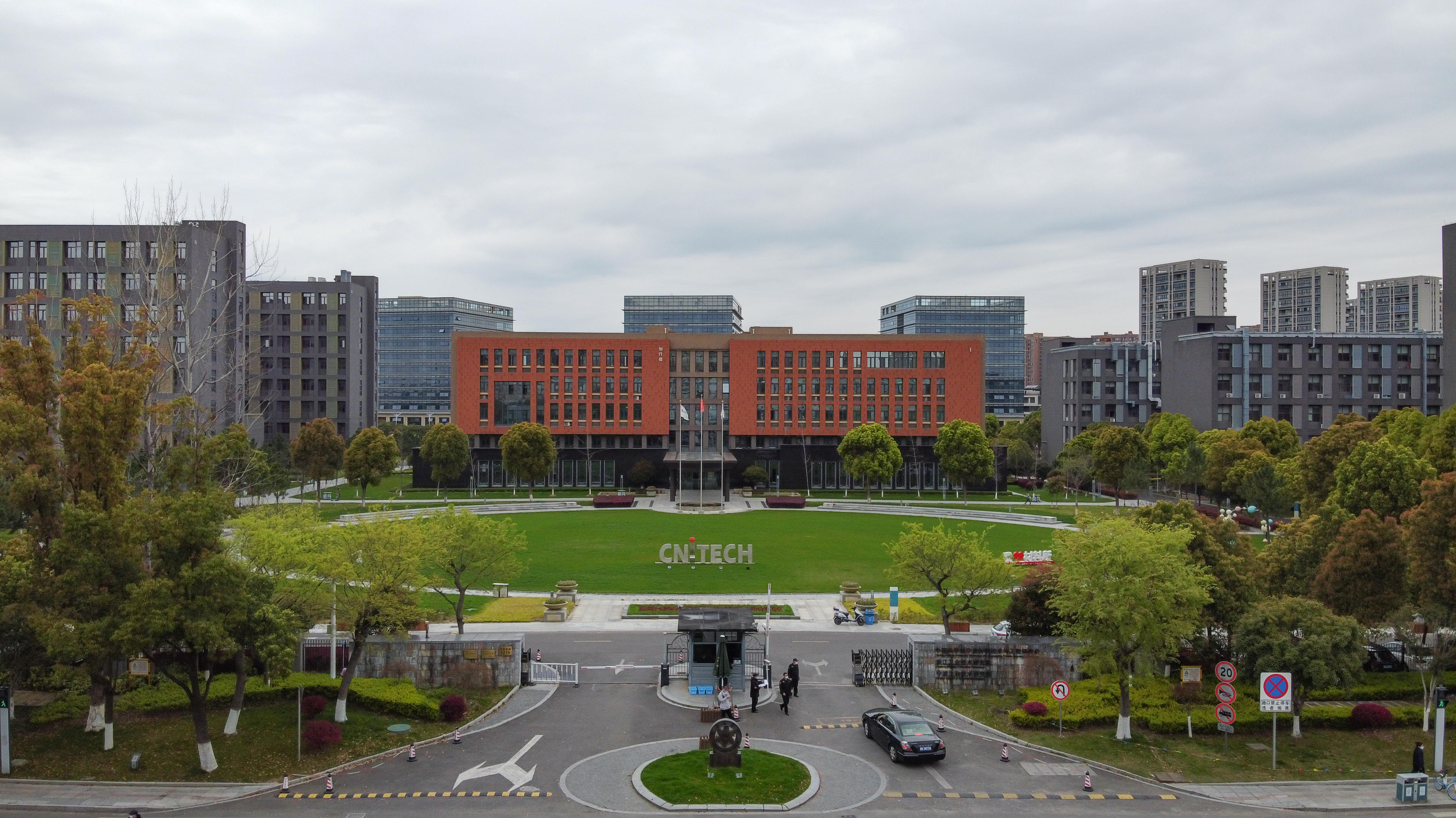 Ningbo Institute of Technology, Chinese Academy of Sciences